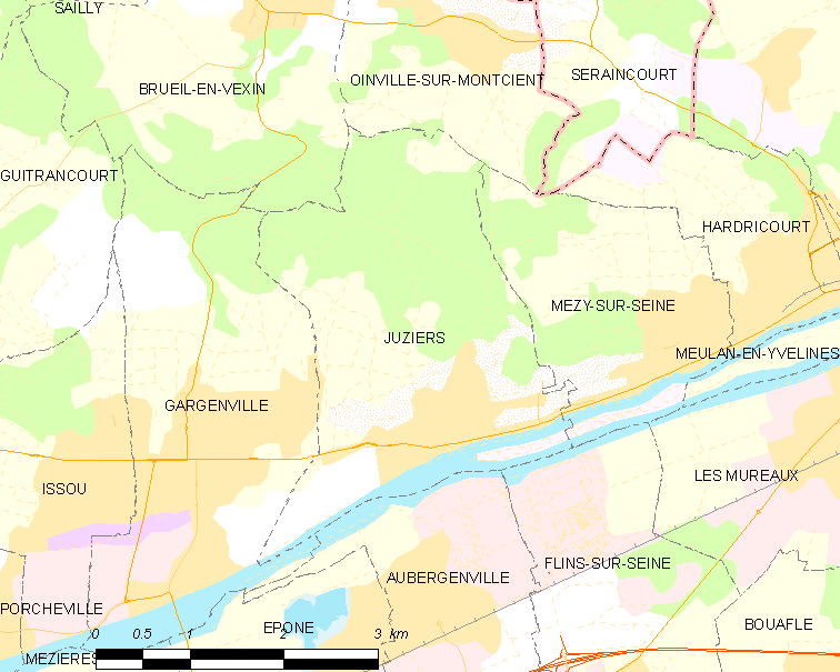 Map of French municipality Juziers